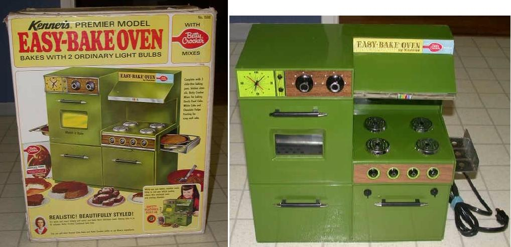 Second version of the Easy-Bake oven - the Premier model - released in 1969.